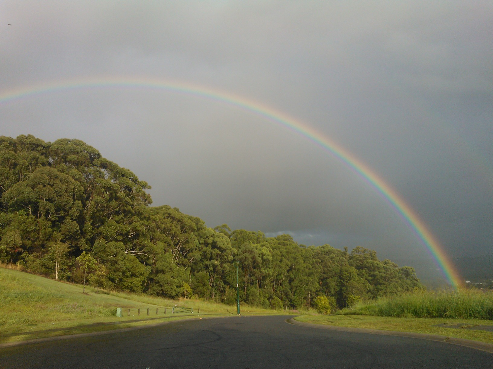 A rainbow taken in the early morning on Border Drive, Currumbin Waters, Gold Coast Australia